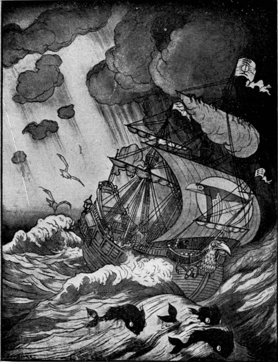 Illustration by Sidney Sime for Lord Dunsany's story "Idle Days on the Yann", from the 1910 book A Dreamer's Tales.